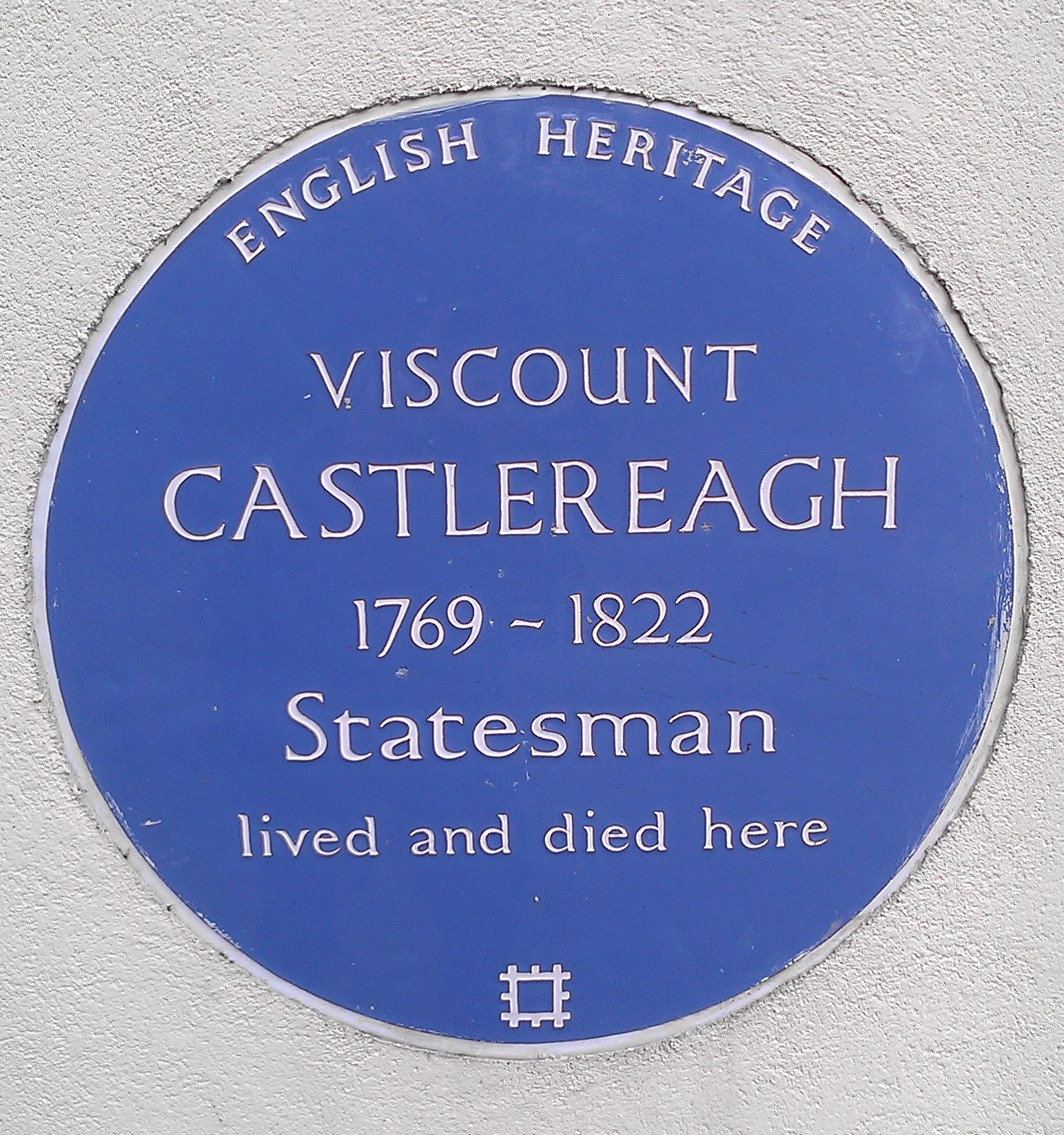 A blue plaque erected for Robert Stewart, Viscount Castlereagh, at his home along the North Cray Road in the London Borough of Bexley. This image represents an Open Plaques entry #292.